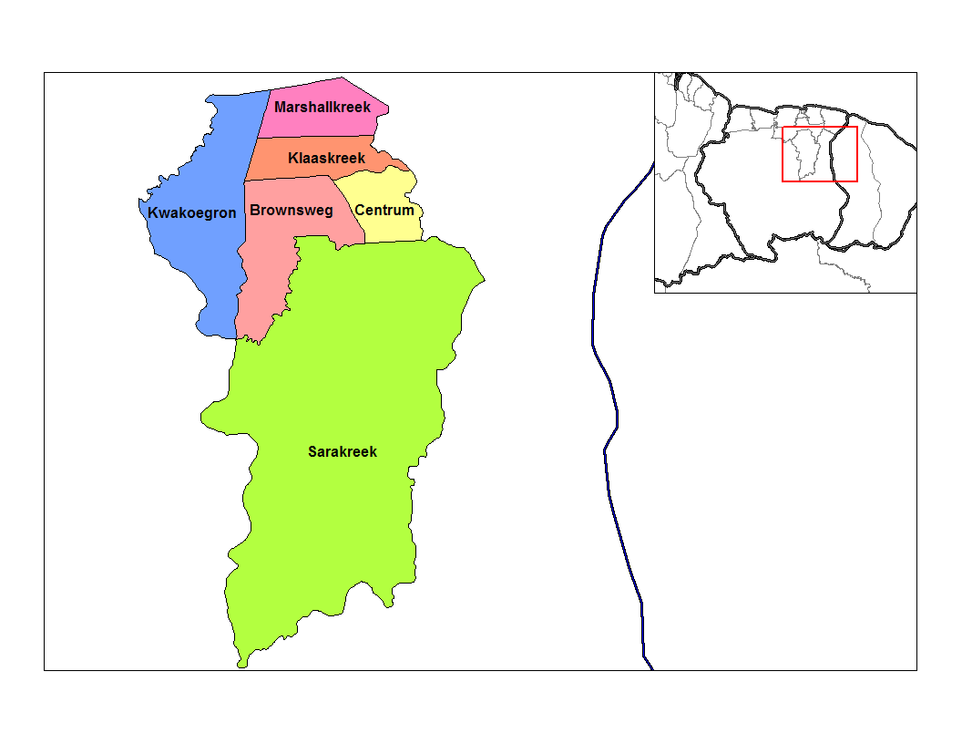 Map of the resorts of the Brokopondo district in Suriname. Created by Rarelibra 22:47, 27 December 2006 (UTC) for public domain use, using MapInfo Professional v8.5 and various mapping resources. Rarelibra 22:47, 27 December 2006 (UTC)